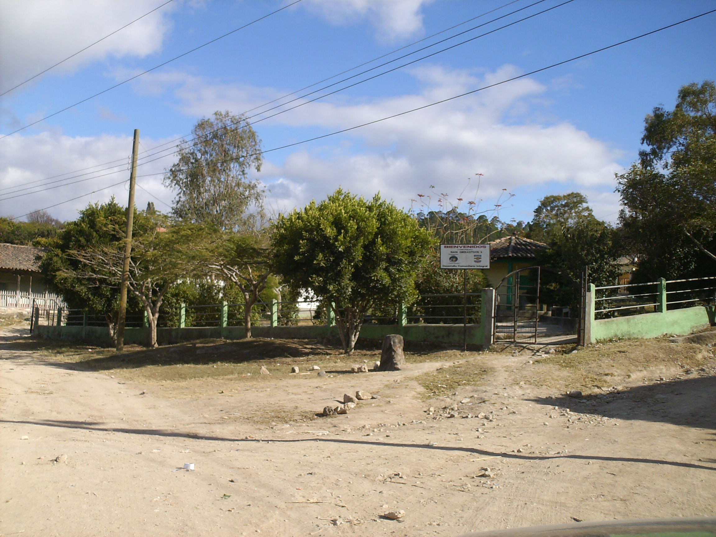 San Sebastian, municipality in the Honduran department of Lempira.